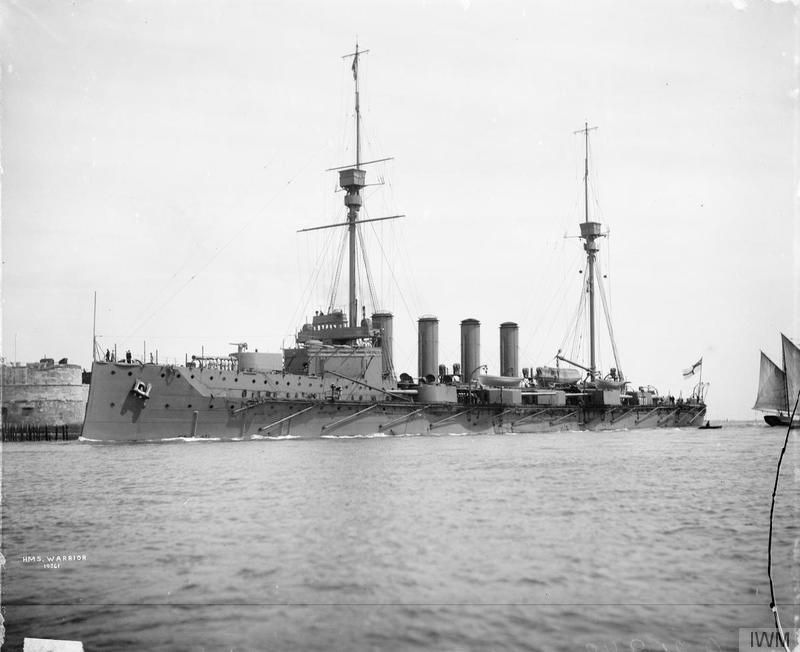 British Ships of the First World War HMS WARRIOR. Heavily damaged at Jutland, and sank 1 June 1916.